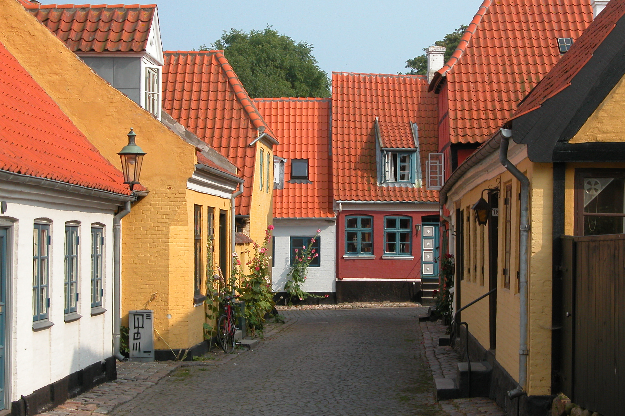 Ærøskøbing, Ærø, Denmark